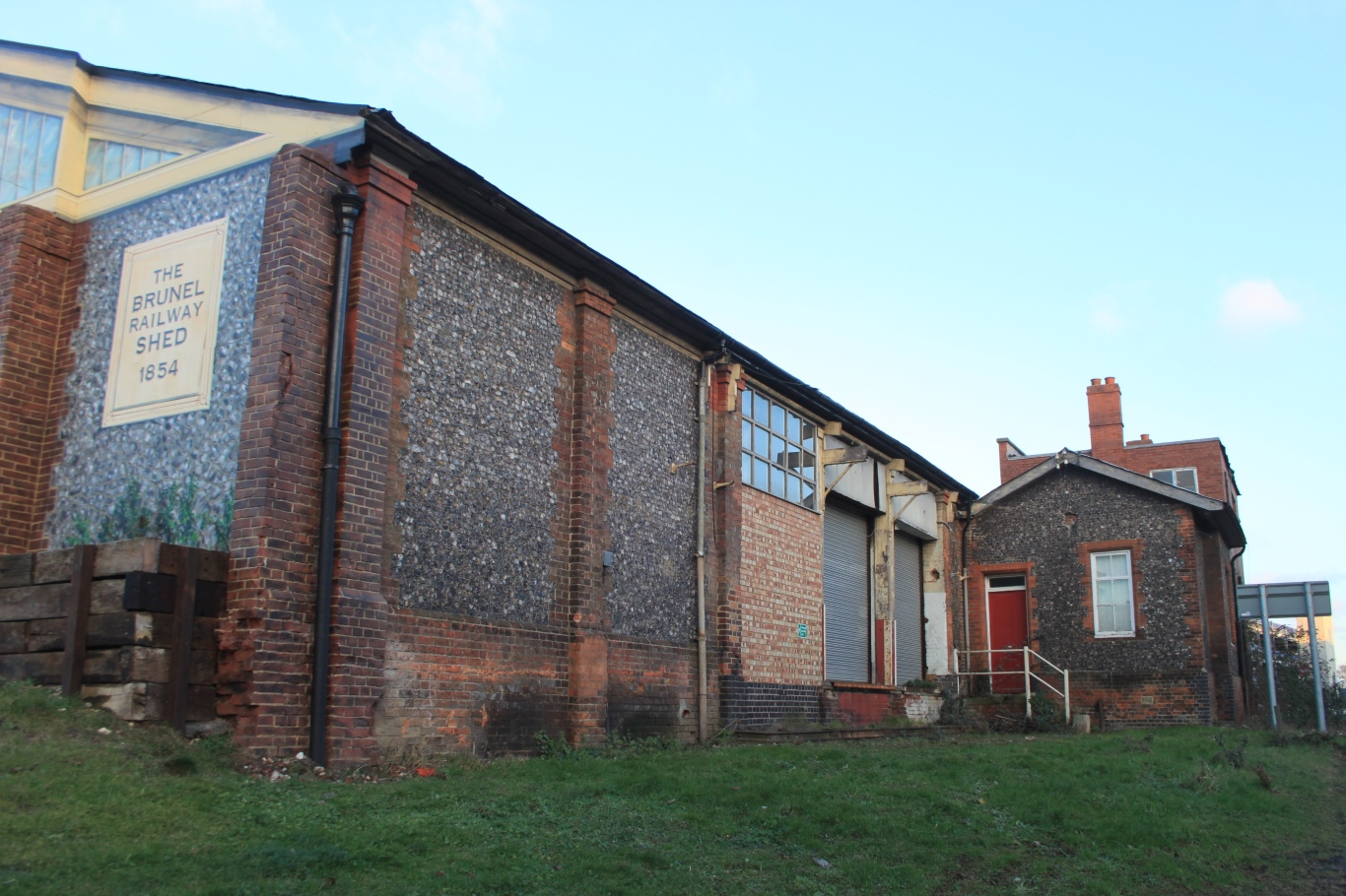 Brunels's original High Wycombe railway terminus stands outside the present-day through station.